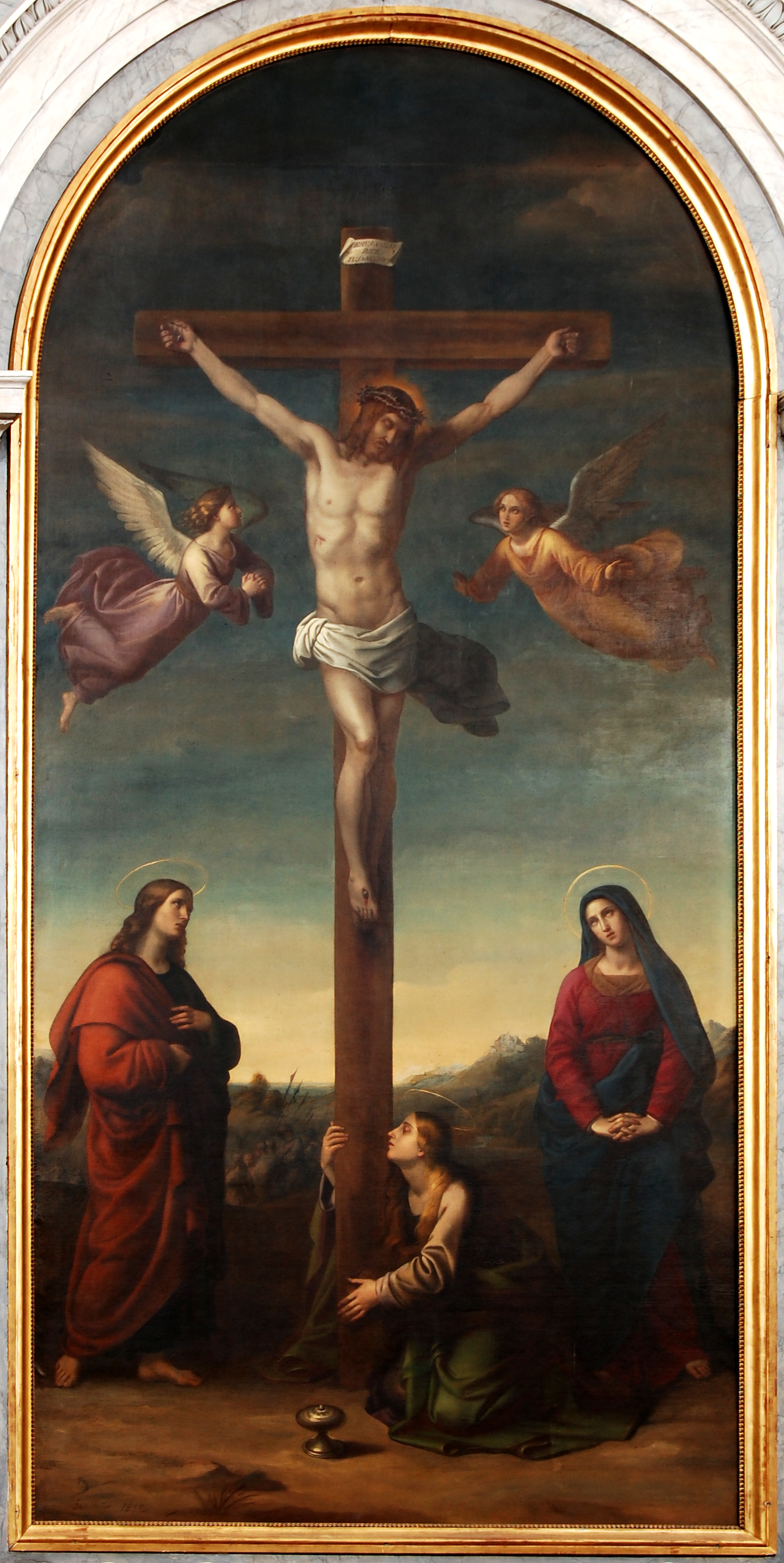 One of six large altar pieces